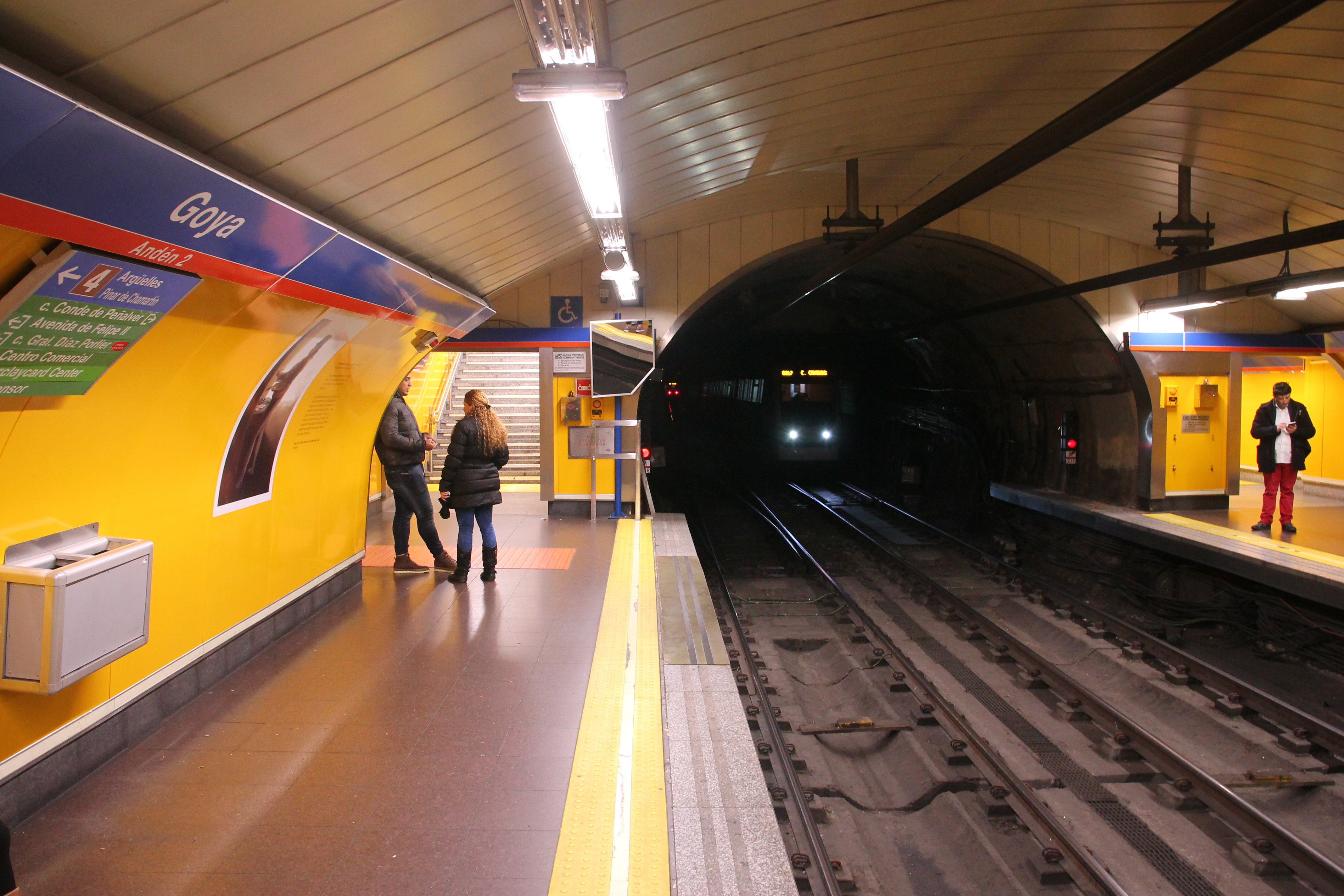 Estación de Goya